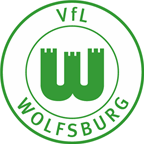 Logo VFL Wolfsburg